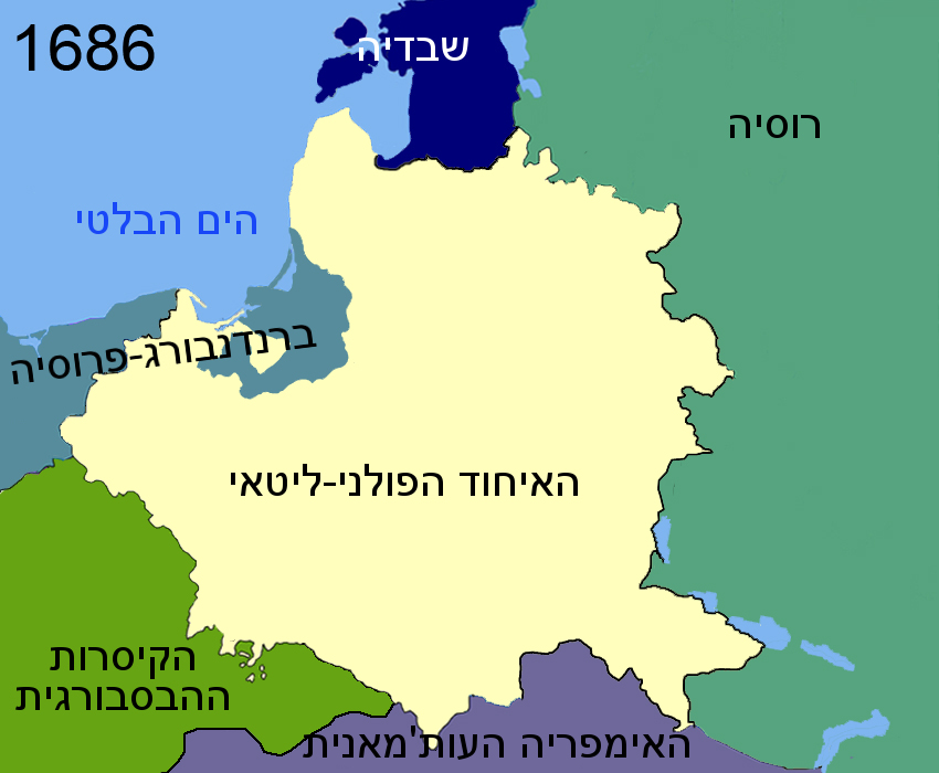 Territorial_changes_of_Poland_1686